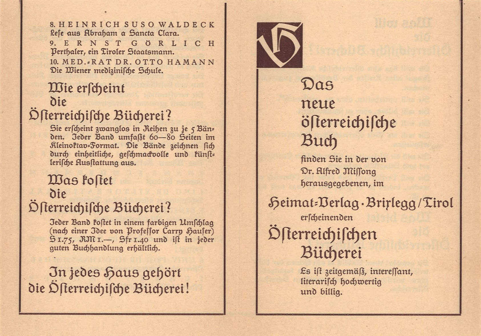 Advertising leaflet for the book series "Österreichische Bücherei" from 1937, frontside (Heimat Verlag Brixlegg/Tirol)